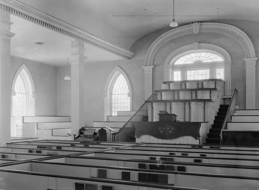 Interior photograph of the Kirtland Temple, Kirtland, Ohio, USA - interior view looking west, first floor. A National Historic Landmark. The Temple was built from 1833-1836 by the Church of Jesus Christ Latter Day Saints under their prophet Joseph Smith, jr. It is today owned and used by the Community of Christ. This image shows the interior of the Church assembly room on the first floor with stucco and hand made carvings in the pulpits and columns.